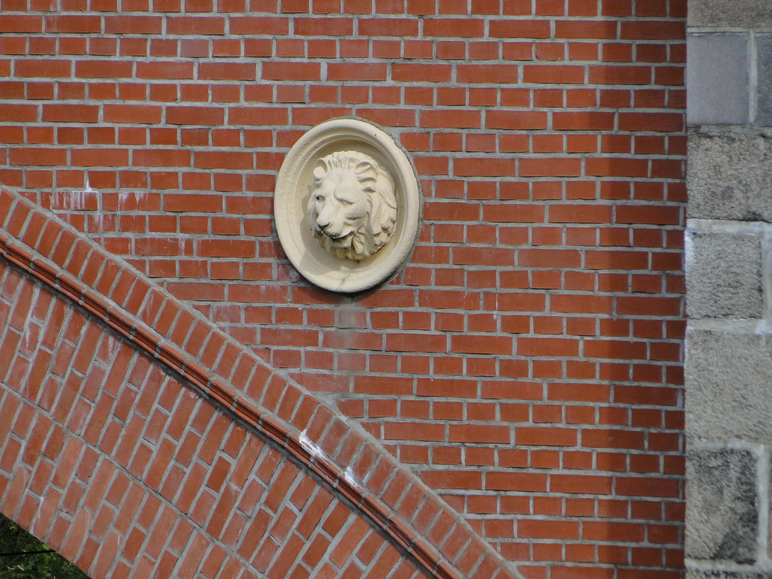 Löwenkopfbrücke (lion's head bridge) over the railway line Berlin-Hamburg near Streesow, disctrict Prignitz, Brandenburg, Germany